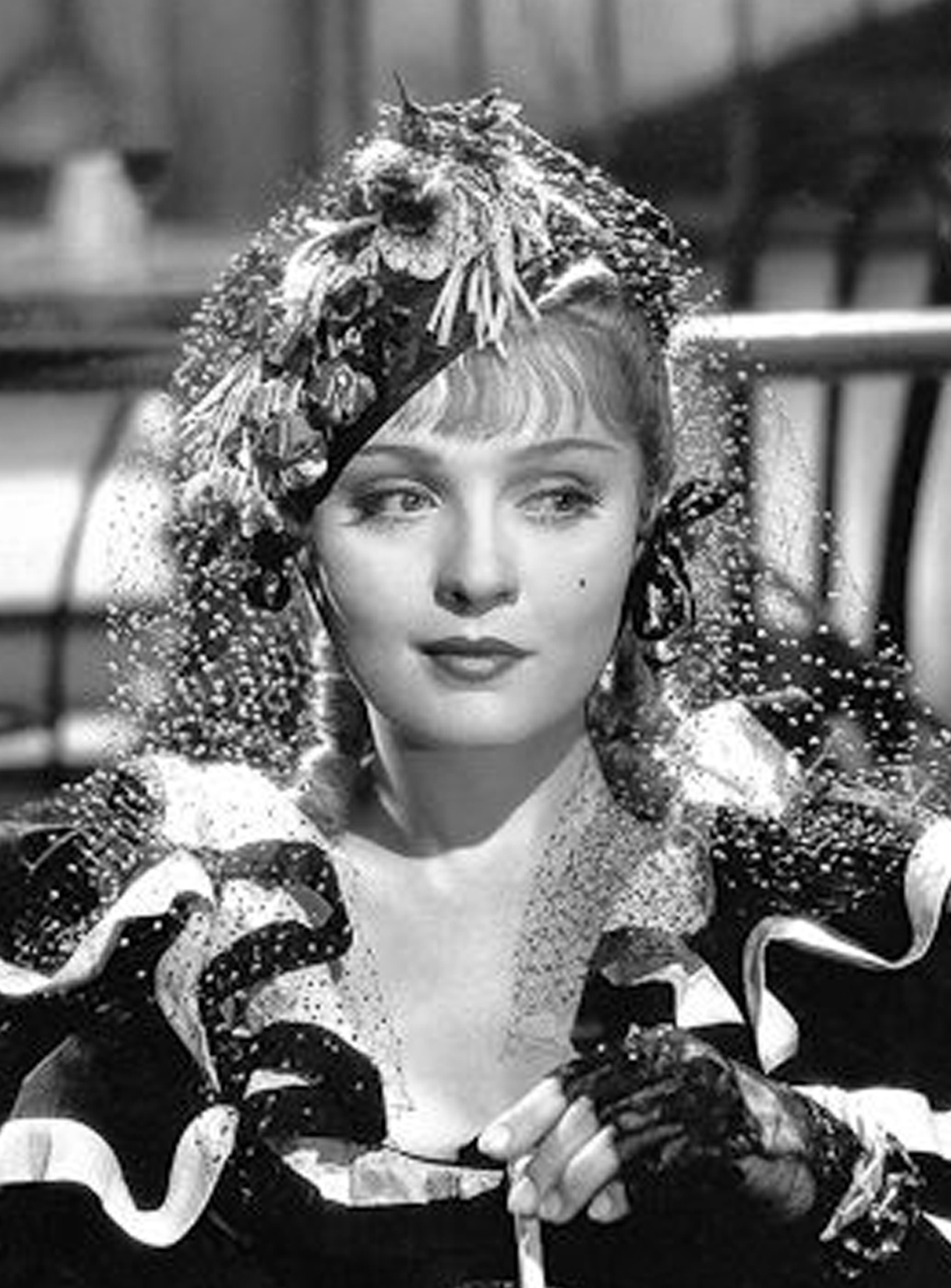 Anna Sten